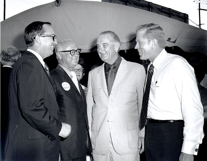 (L to R) Gus Mutscher, Preston Smith, Lyndon Johnson, and Ben Barnes, at "Gus Mutscher Day" in Brenham, Texas, United States.